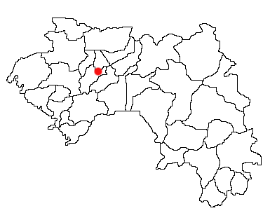 Pita, Guinea Location Map; created with the GIMP. Made by User:Acntx.